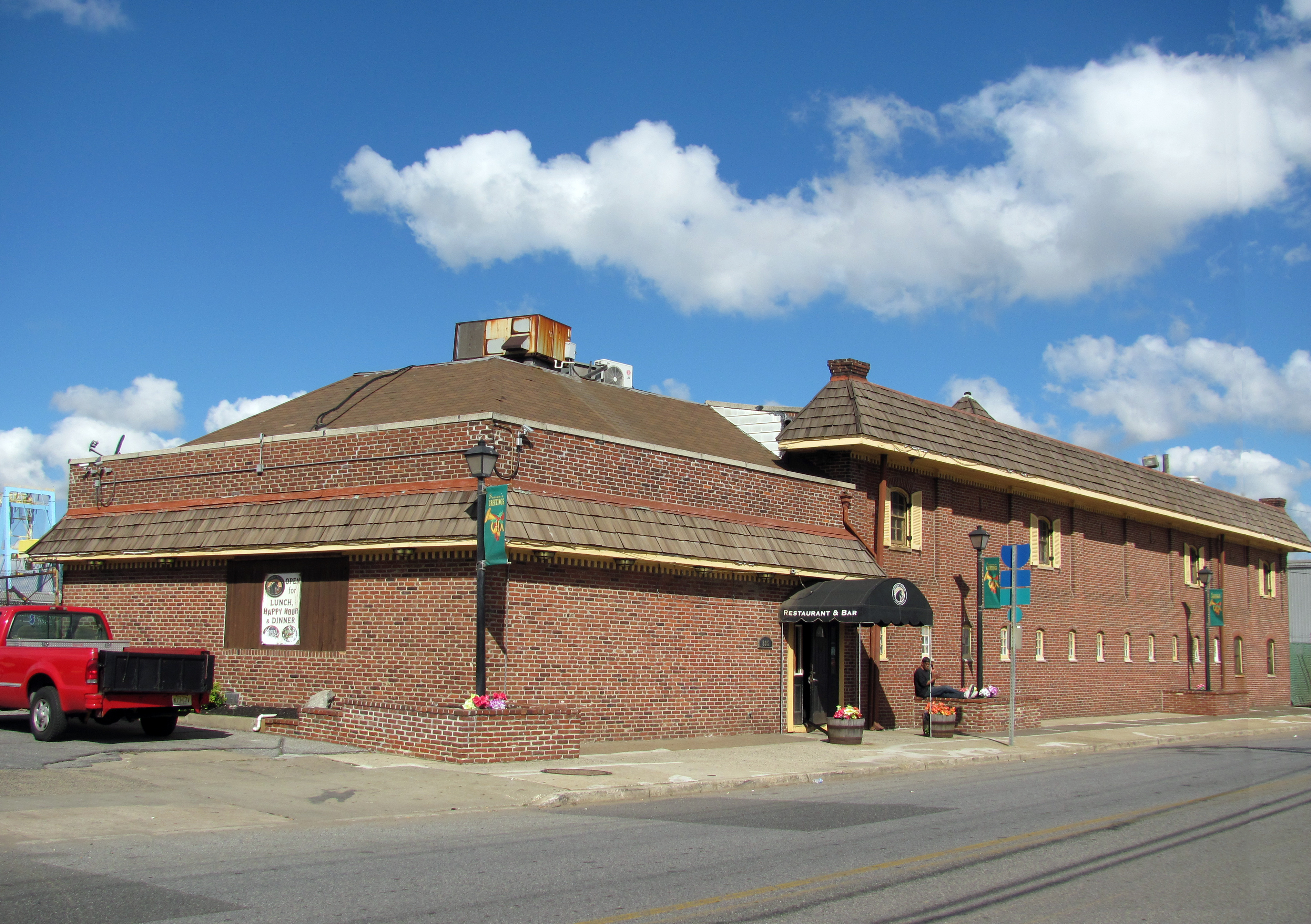 View of Volney G. Bennett Lumber Company, 138 Division St. and 845 S. Second St., Camden, , New Jersey looking northwest from Second Street.